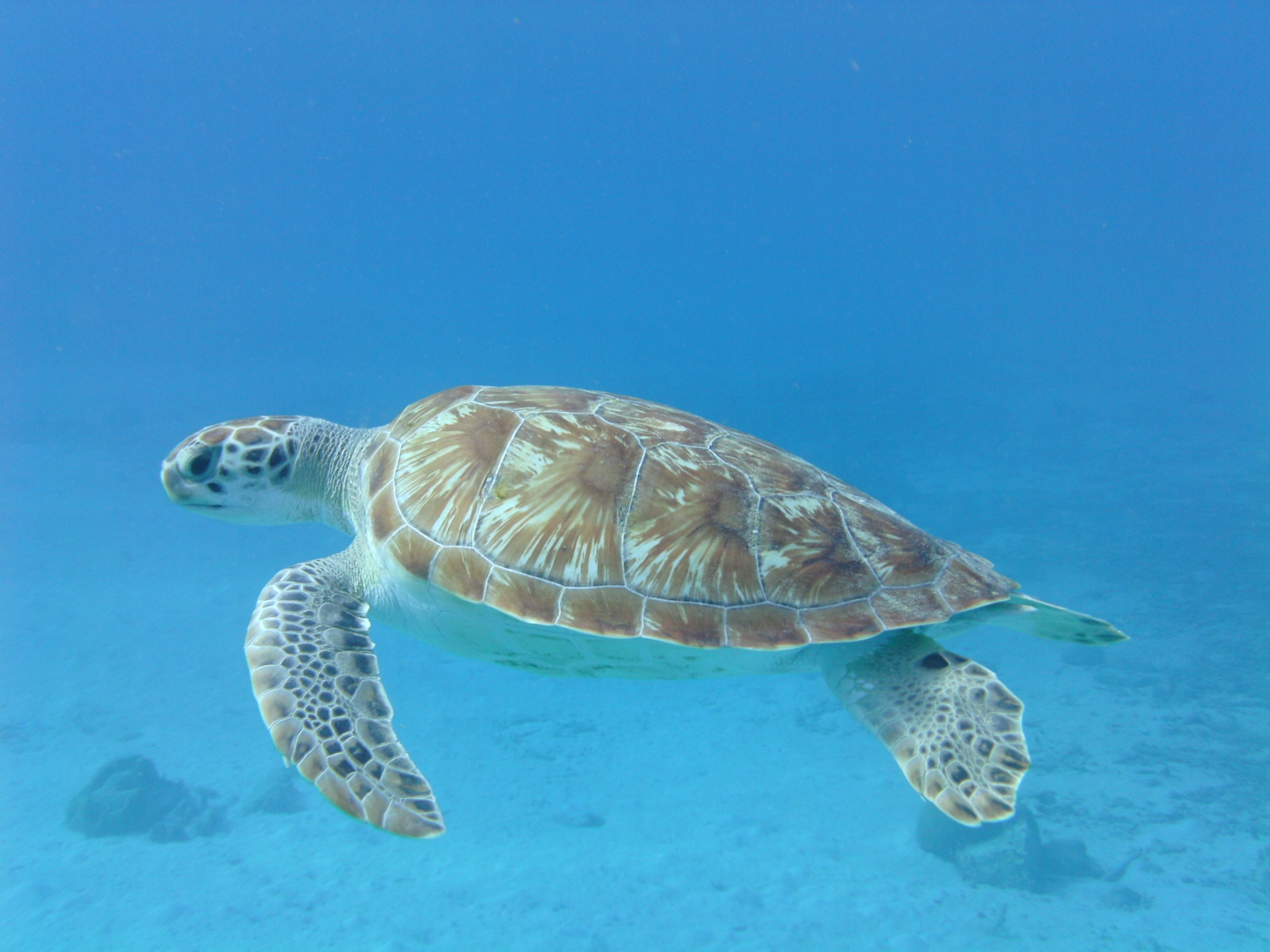 Chelonia mydas in the Caribbean sea off the coast of Curacao.